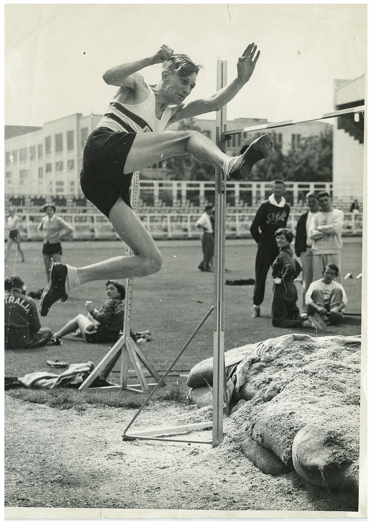 Peter Wells Athlete 1954.07 Vancouver. Practice.